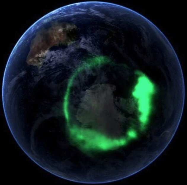 False-colour image of ultraviolet Aurora australis captured by NASA's IMAGE satellite and overlaid onto NASA's satellite-based Blue Marble image.